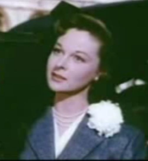 Screenshot of Susan Hayward from the film The Snows of Kilimanjaro